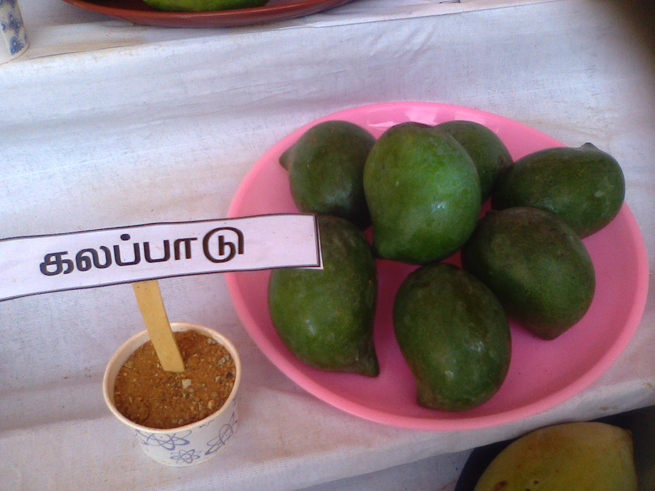 கலப்பாடு